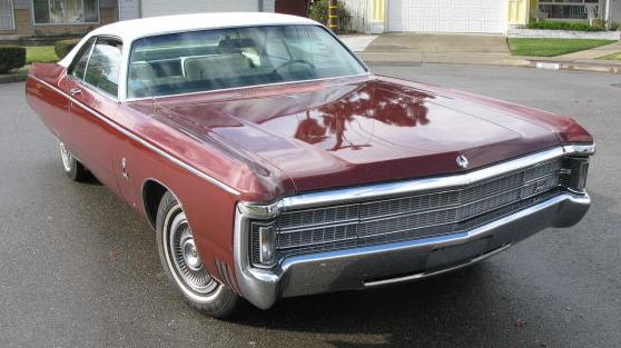 1969 Imperial LeBaron coupe